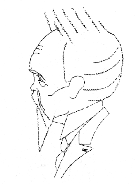 Jean Perrin (1870-1942), Nobel Laureate in Physics (1926)Drawing by Gheorghe Manu (1903-1961), Romanian physicist